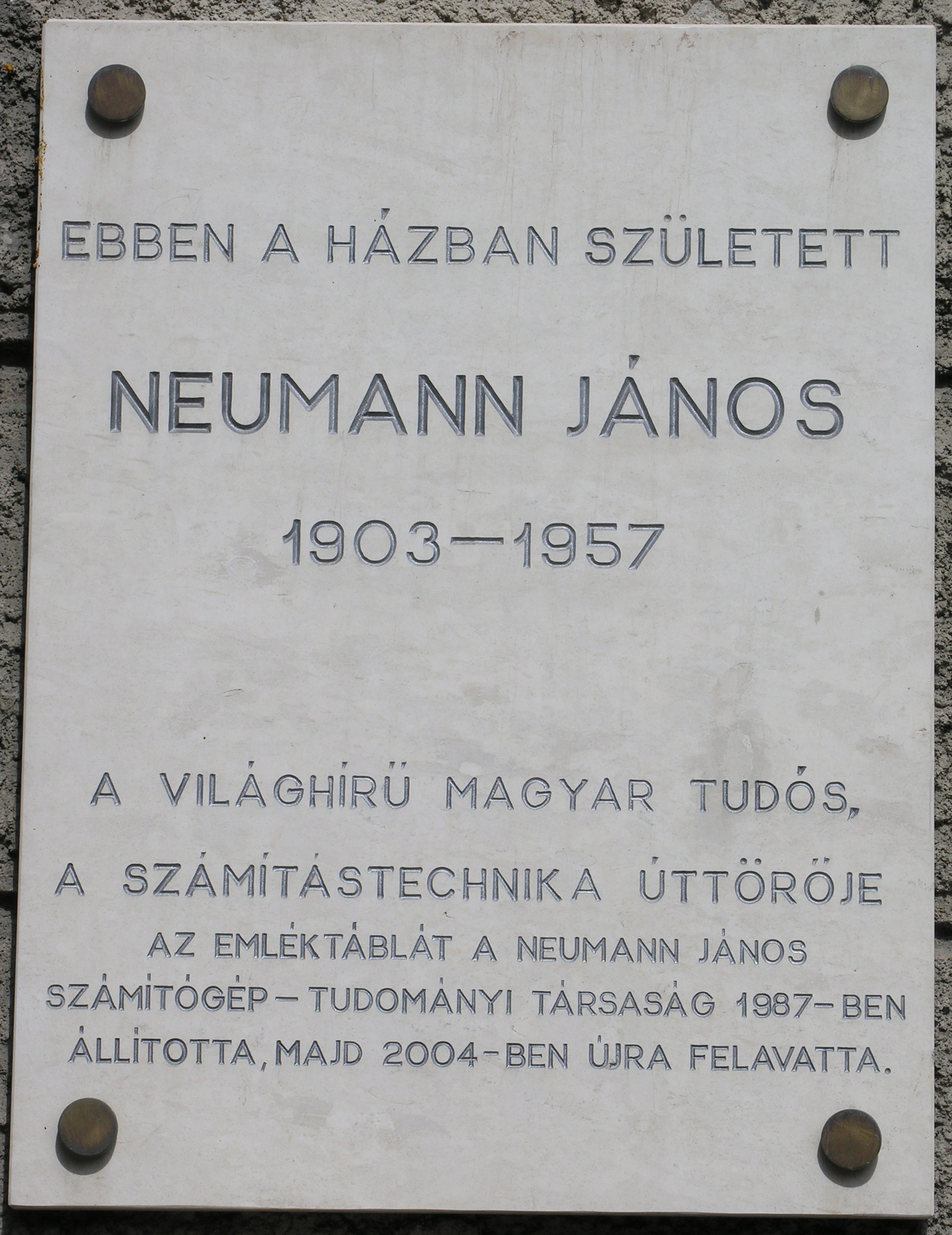 John von Neumann commemorative plaque in Budapest District V, Báthori Street No 26